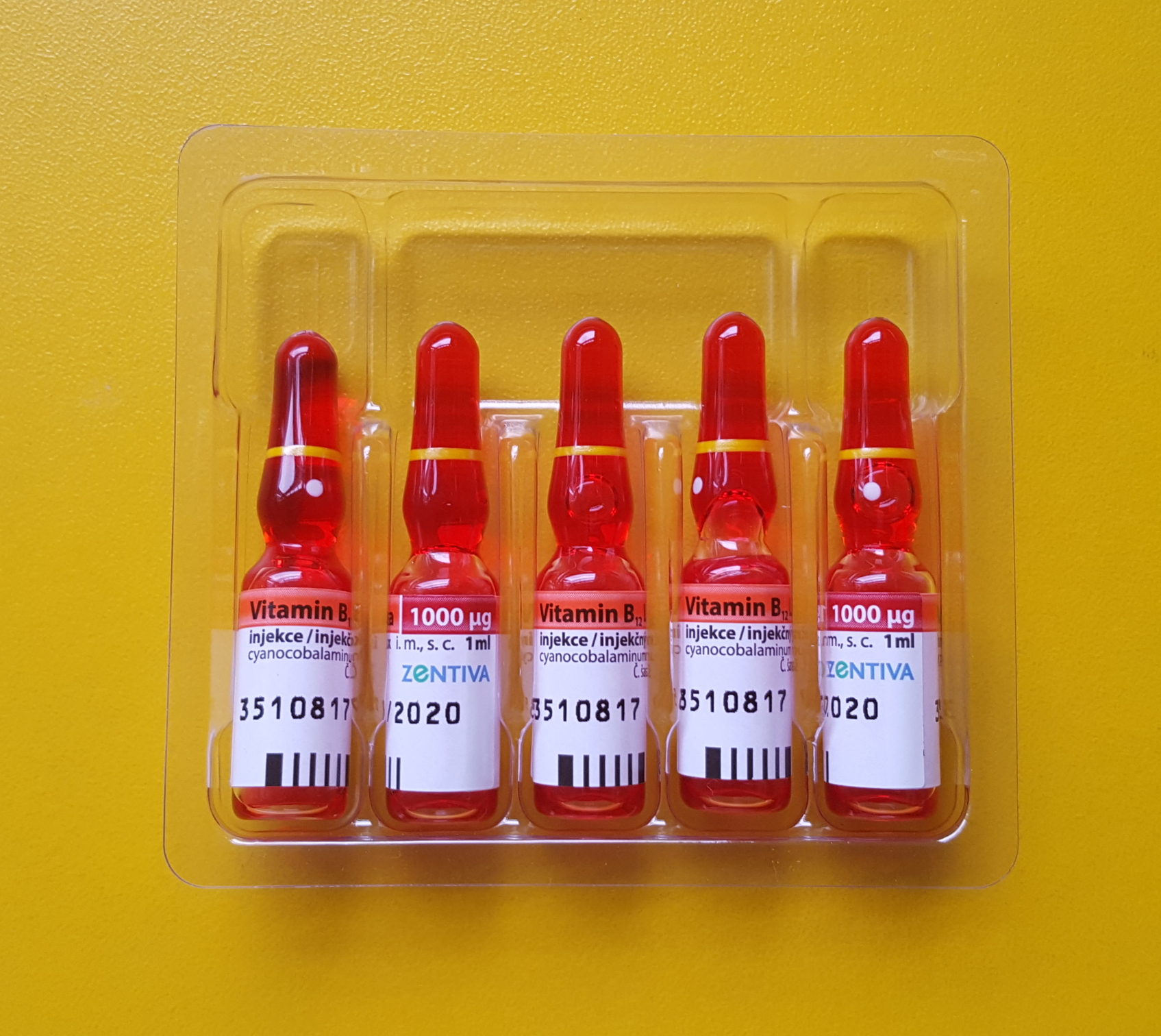 Vitamin B12/Cobalamin 1000mcg vials